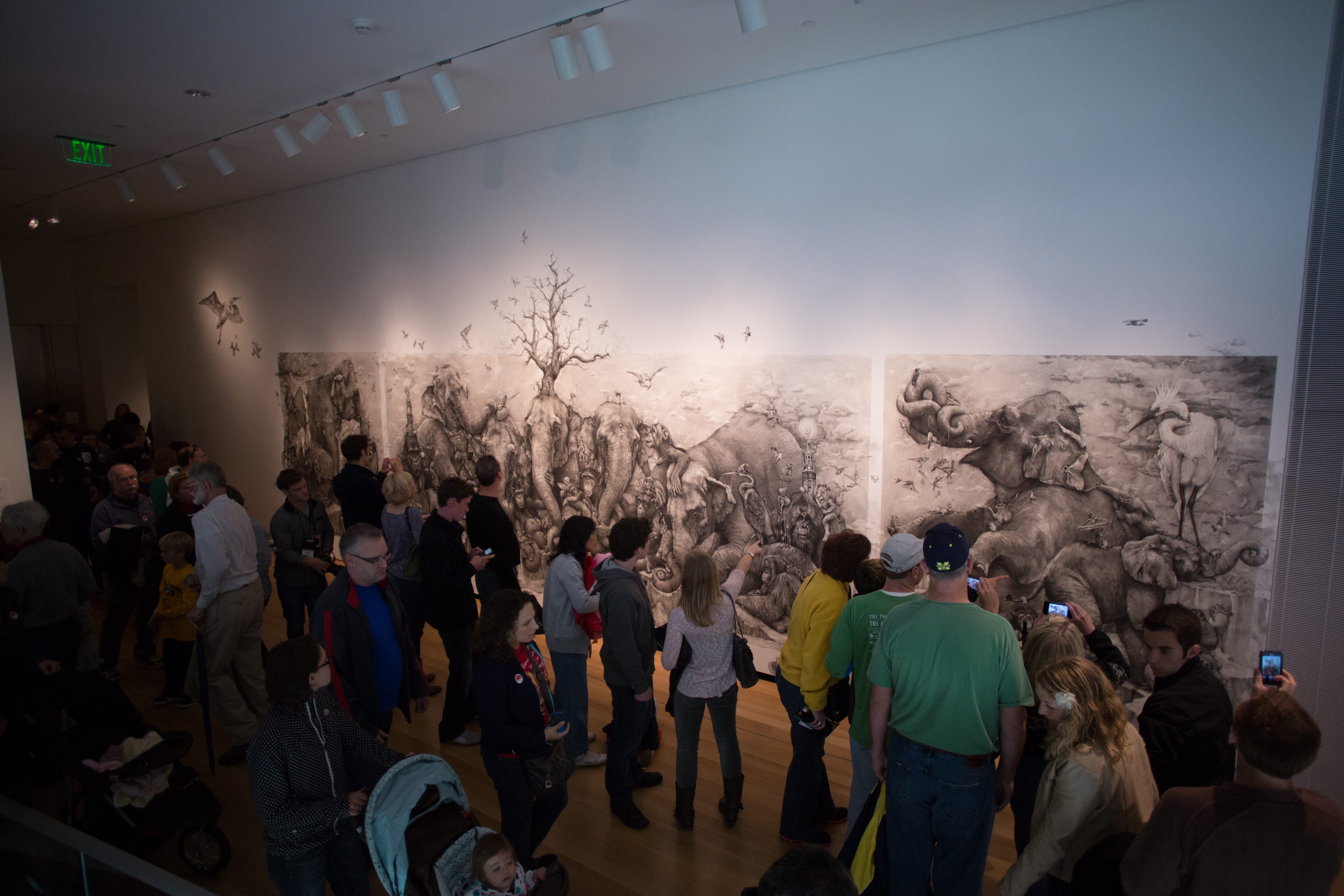 Artwork hanging in a museum with visitors looking at it.